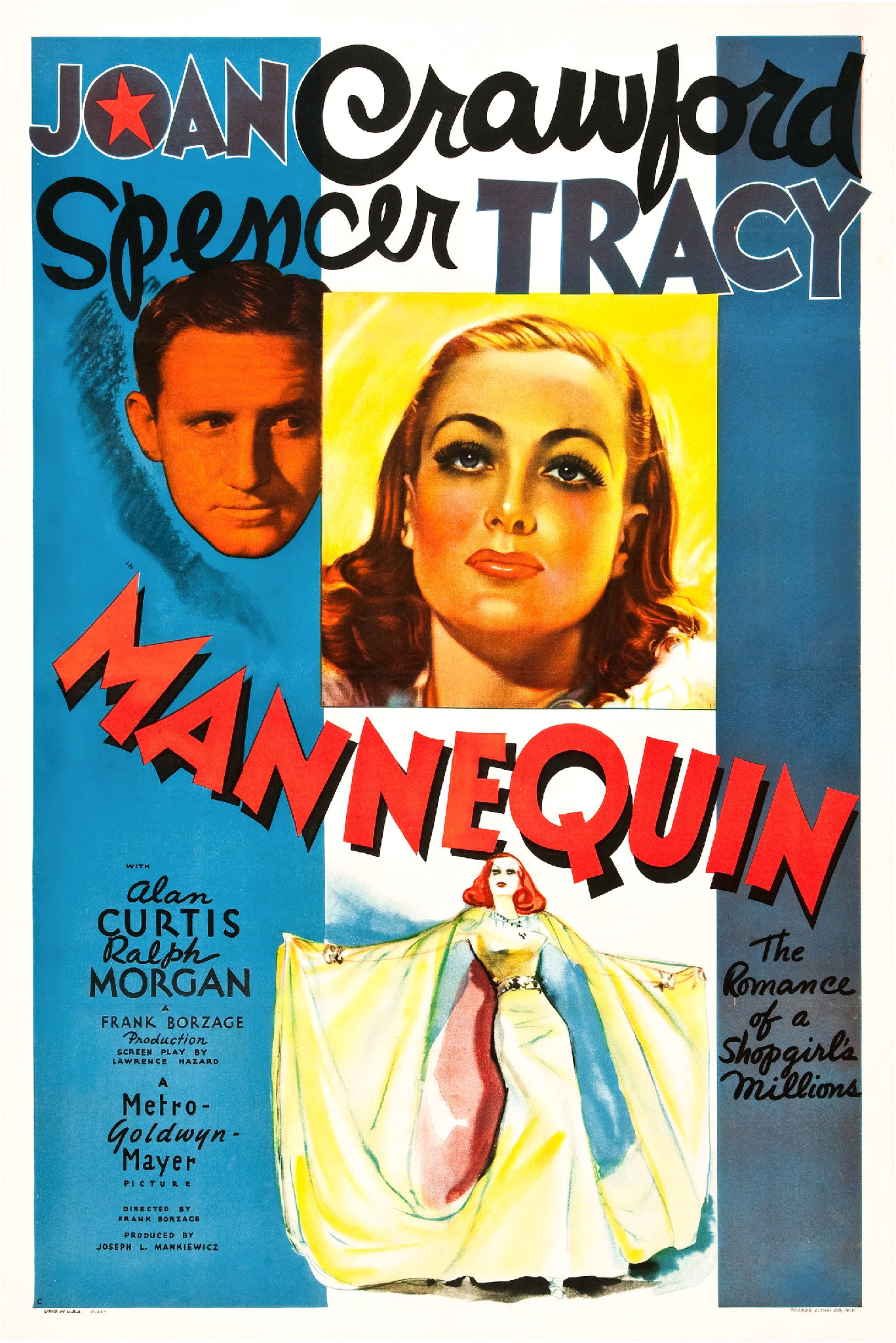 Poster for the American drama film Mannequin (1937). There are no copyright marks on the poster. At bottom left is "C"-poster version "C", Litho in USA #1224. At bottom right is Tooker Litho Co., NY-they printed the poster.